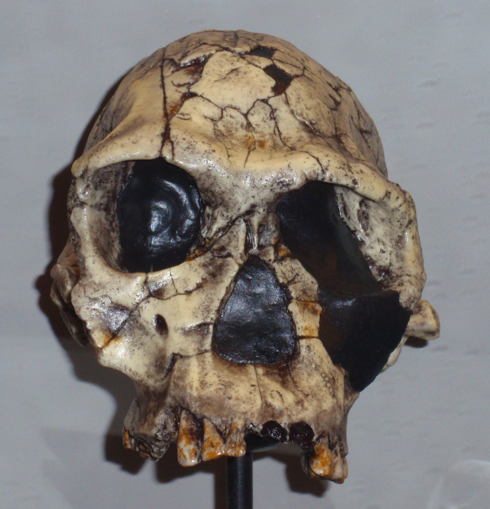 Skull cast of KNM-ER 1813 at Evolutionsmuseet, Uppsala, Sweden. KNM-ER 1813 is often regarded as Homo habilis. Some paleoanthropologists, however, regards this taxon as an invalid one, consisting of bones from many different species, both Australopithecus and Homo erectus. Some scientists regard KNM-ER 1813 as Homo erectus.[1] References ↑ Wolpoff M.H. Paleoanthropology ((2nd edition) McGraw-Hill, 1999), p. iv.